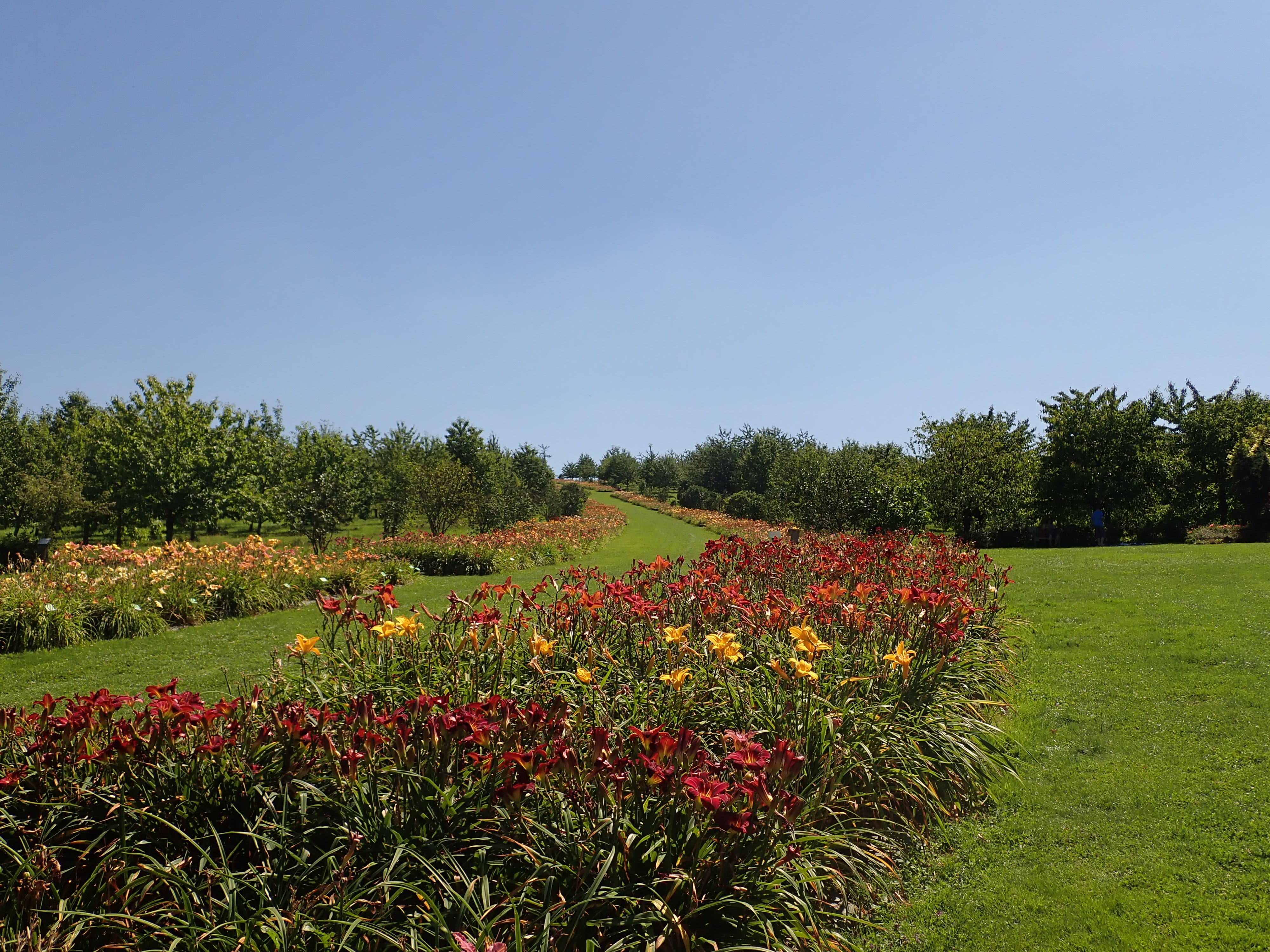 Hemerocallis collection, Arboretum in Wojsławice, Poland.